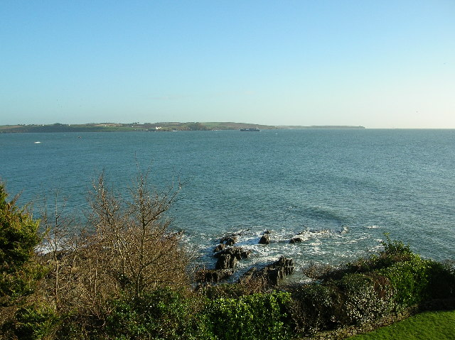 Mouth of Cork Harbour. Looking east from Church Bay (the Crosshaven side) towards the lighthouse at Roche's Point. On the right (south) is Ringabella Bay, on the left (north) is Lough Beg.